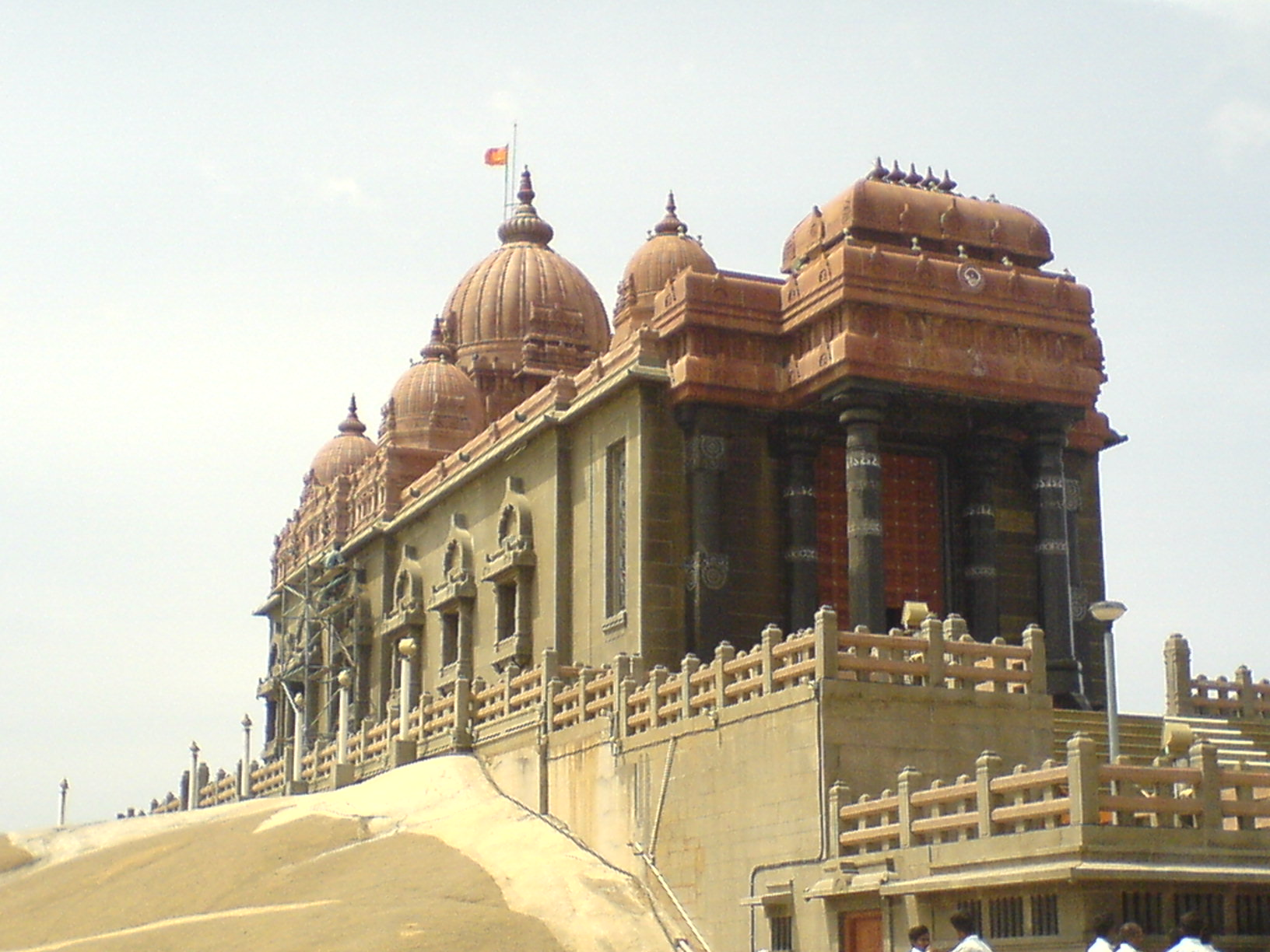 Vivekananda Temple on Vivekananda rock at Kanyakumari, India. ગુજરાતી: કન્યાકુમારી, ભારત ખાતે વિવેકાનંદ પત્થર (રોક) પર વિવેકાનંદનું મંદિર.